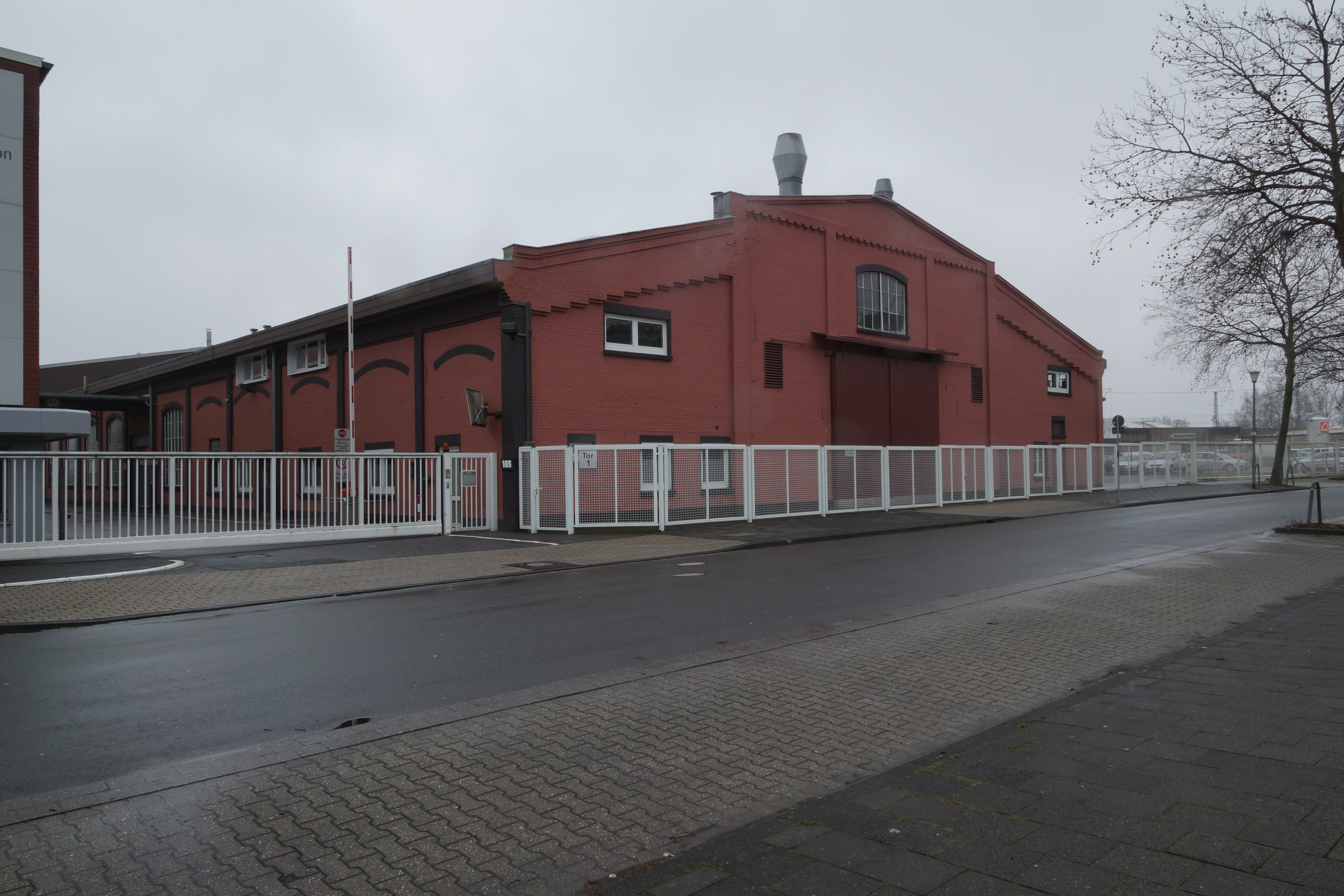 Schlatter Deutschland GmbH & Co. KG. formely known as Emil Jaeger GmbH.